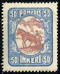 Stamp of Northern Ingria, 1920.